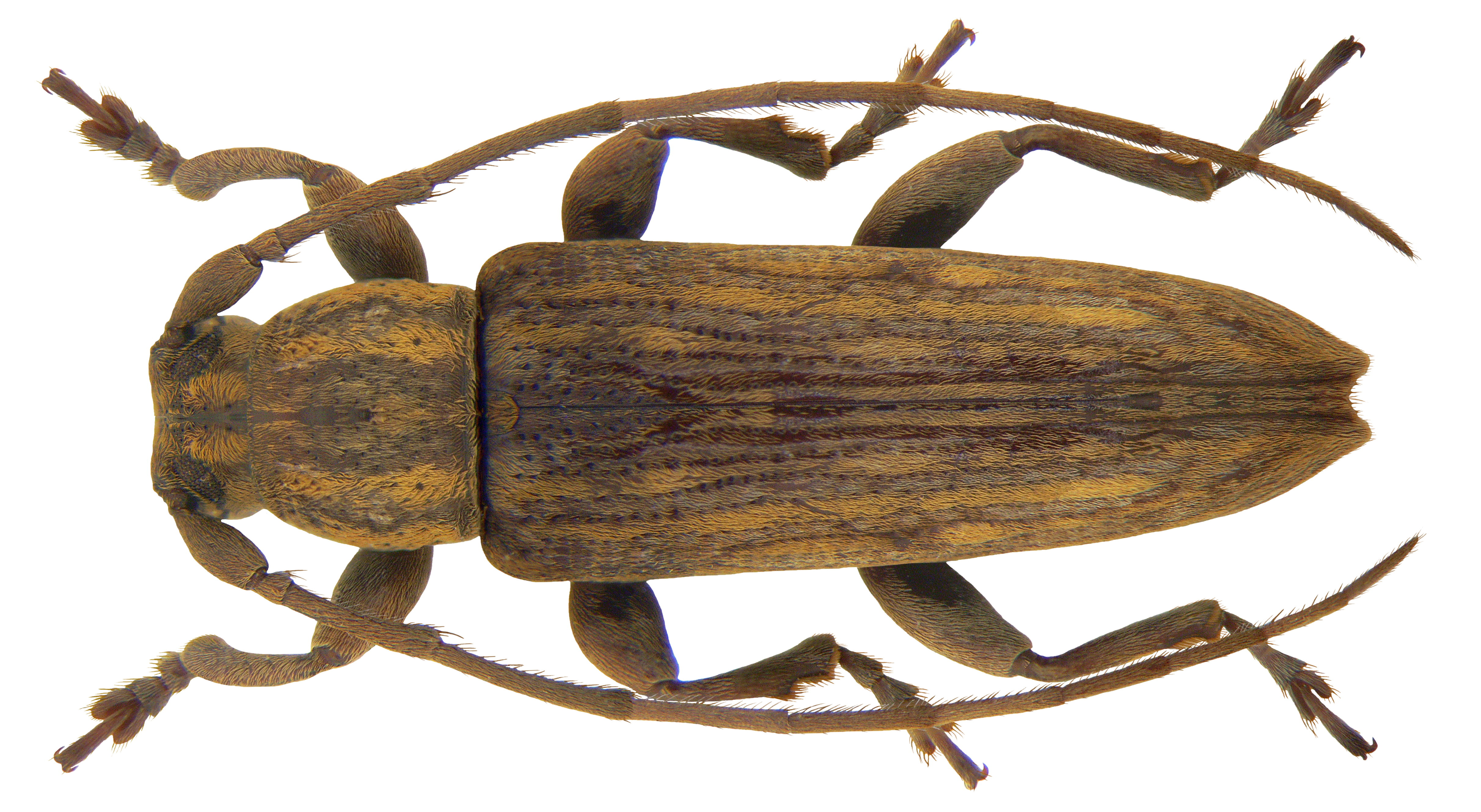 Familie: Cerambycidae Groesse: 9,4 mm Fundort: Malaysia, Borneo, W.Sabah, Crocker Range, Apin Apin leg.M.Snizek, 2000; det. A.Skale, 2008 Photo: U.Schmidt, 2009